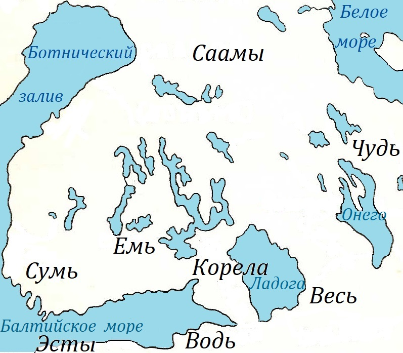 Finno-Ugric tribes in the 10th century.